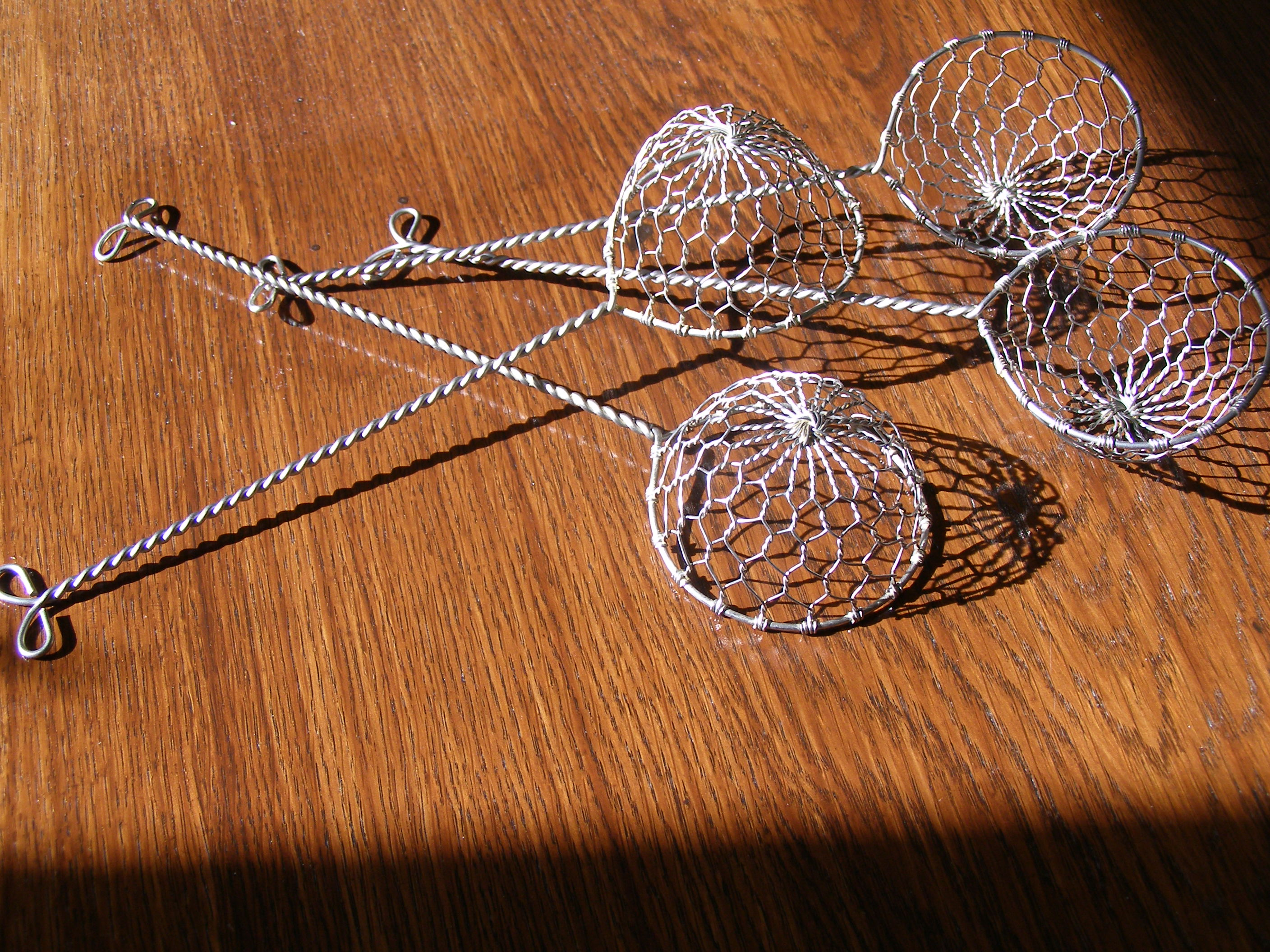 Set for fish fondue Besteck für Fischfondue Košíčky pro rybí fondue